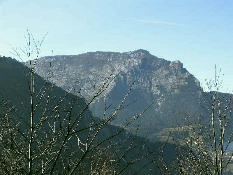 Mountain Arretabaso in Bizkaia Vista del monte Arrietabaso en Vizcaya, País Vasco, España.